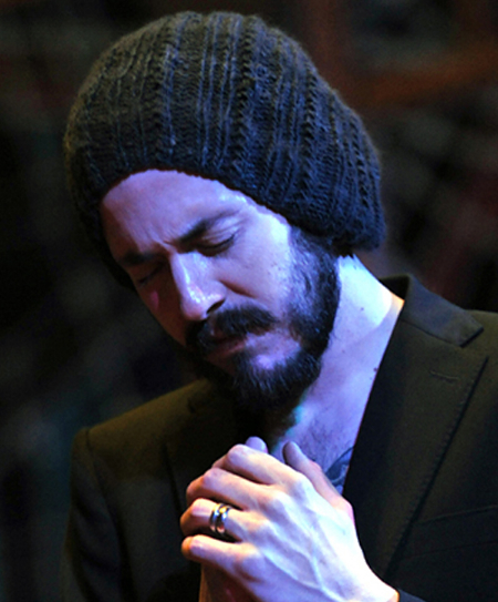 Matt Morris performs at First Presbyterian Church at the SXSW Festival.